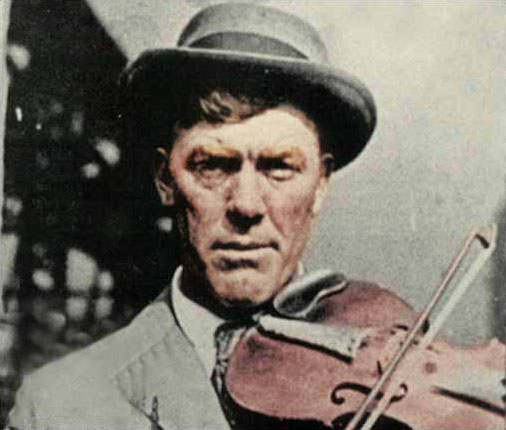 Gid Tanner in the 1920's